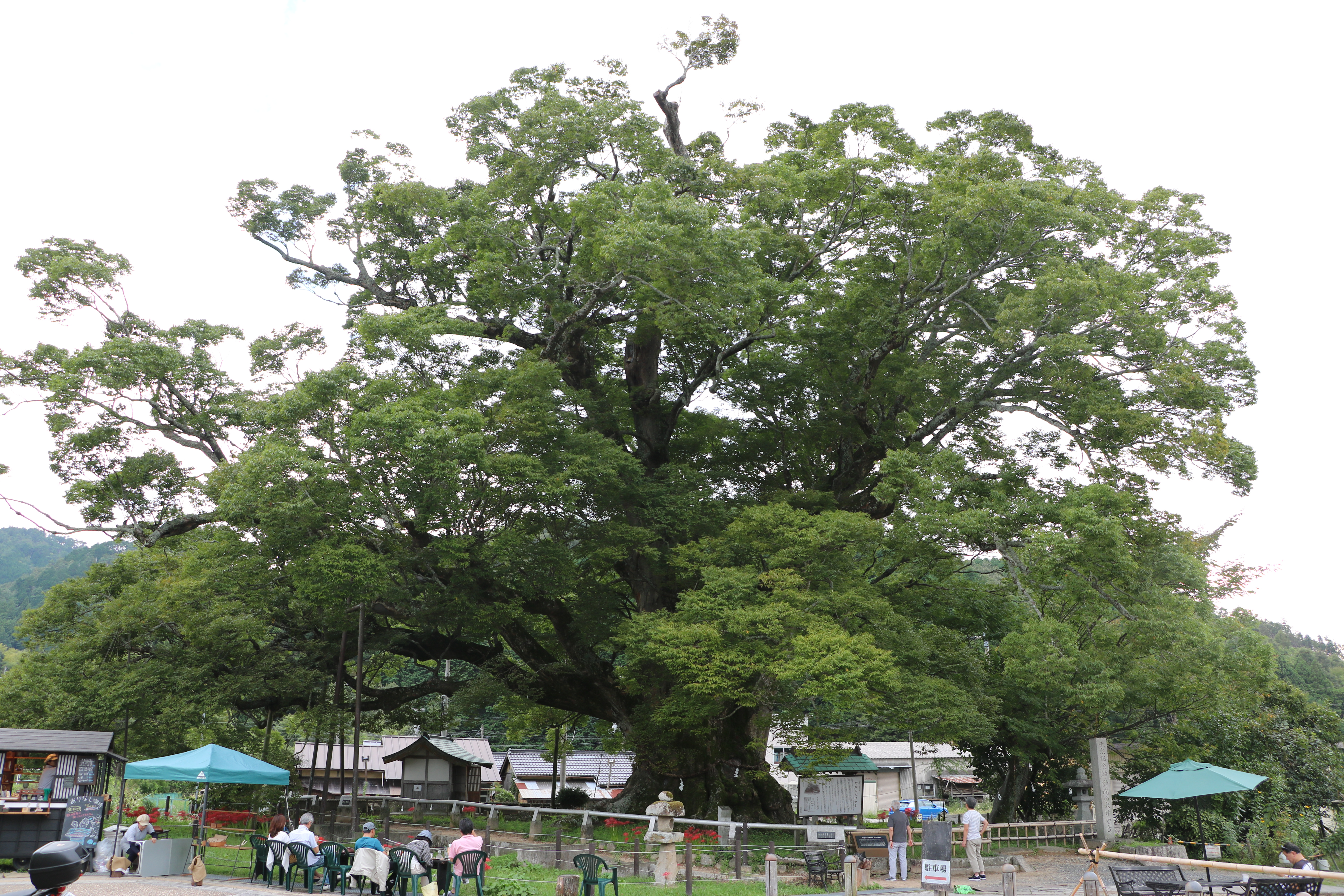 Large zelkova of Noma